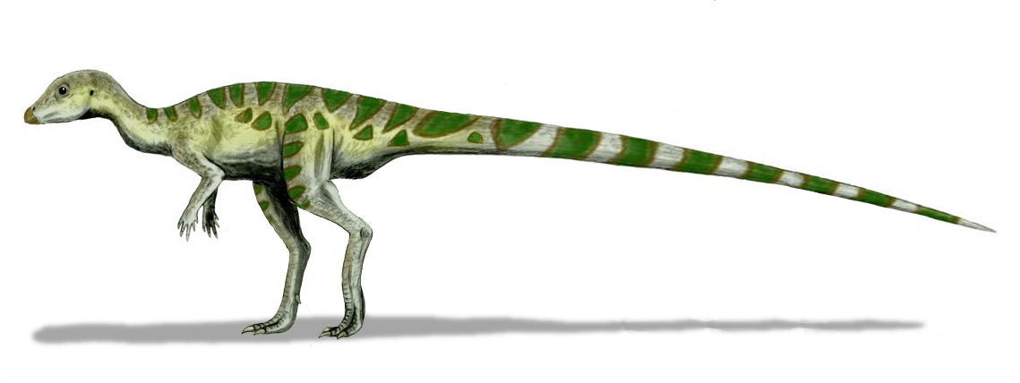 Leaellynasaura amicagraphica, a hypsilophodont from the Early Cretaceous of Australia, pencil drawing, digital coloring